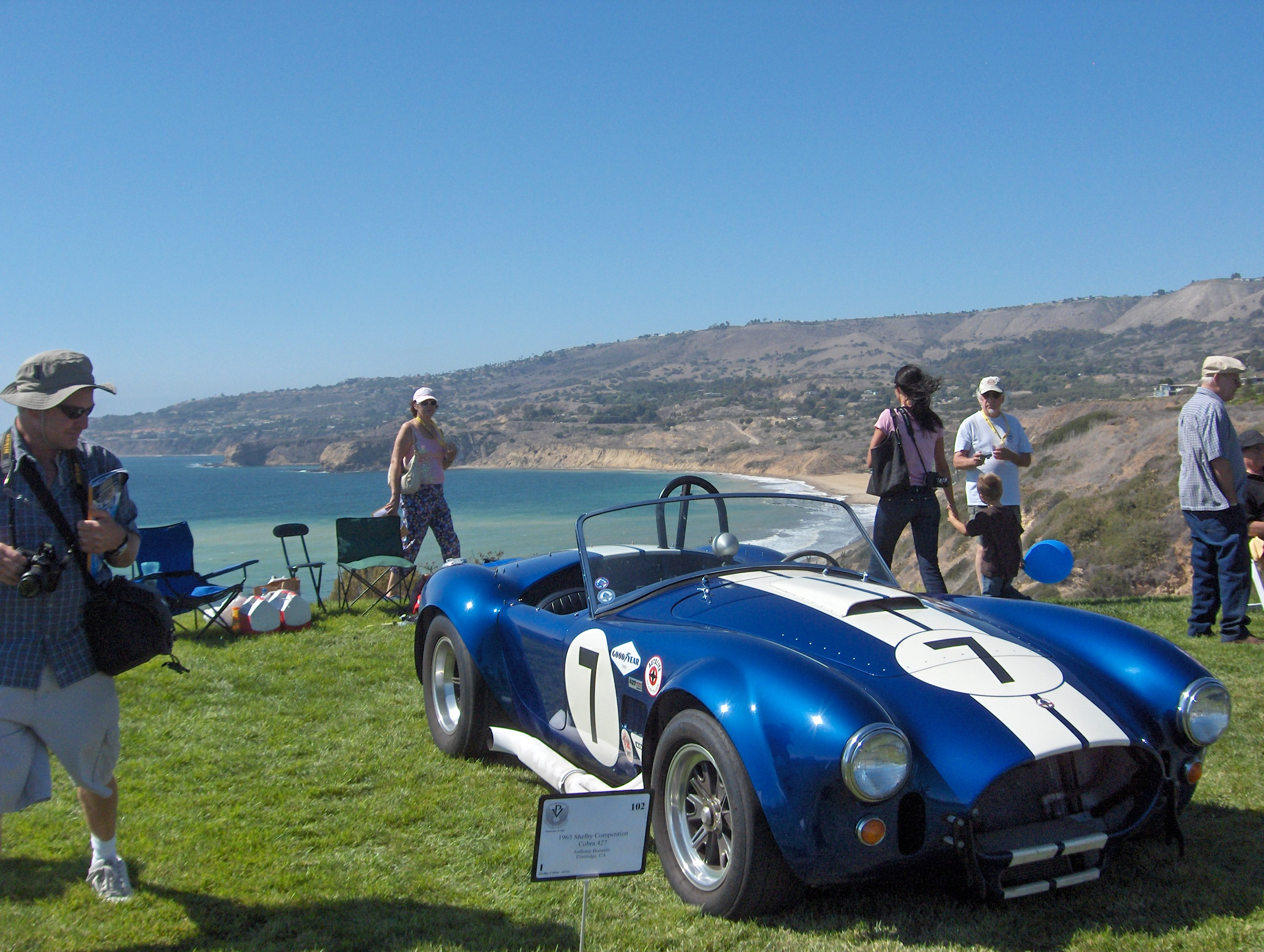 Ford V8